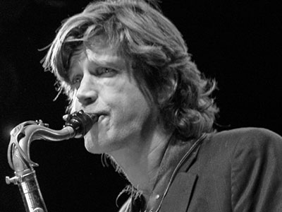 Jackob Dinesen in Aarhus Denmark 2014